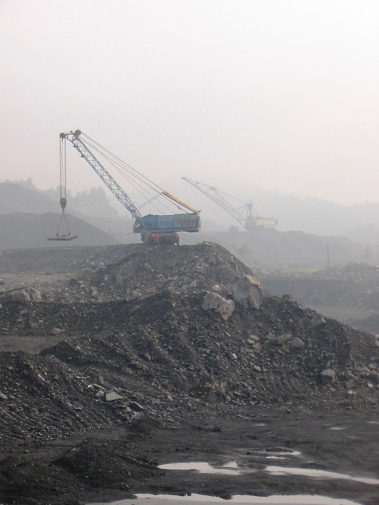 Mining equipment, used in a mine near Mezhdurechensk in 2006.